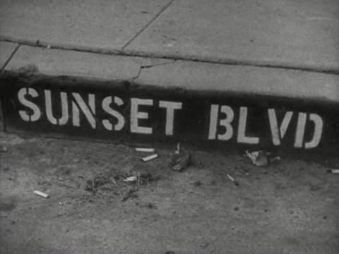 Screenshot taken by me (Fred waldron) from the trailer to the movie Sunset Blvd.